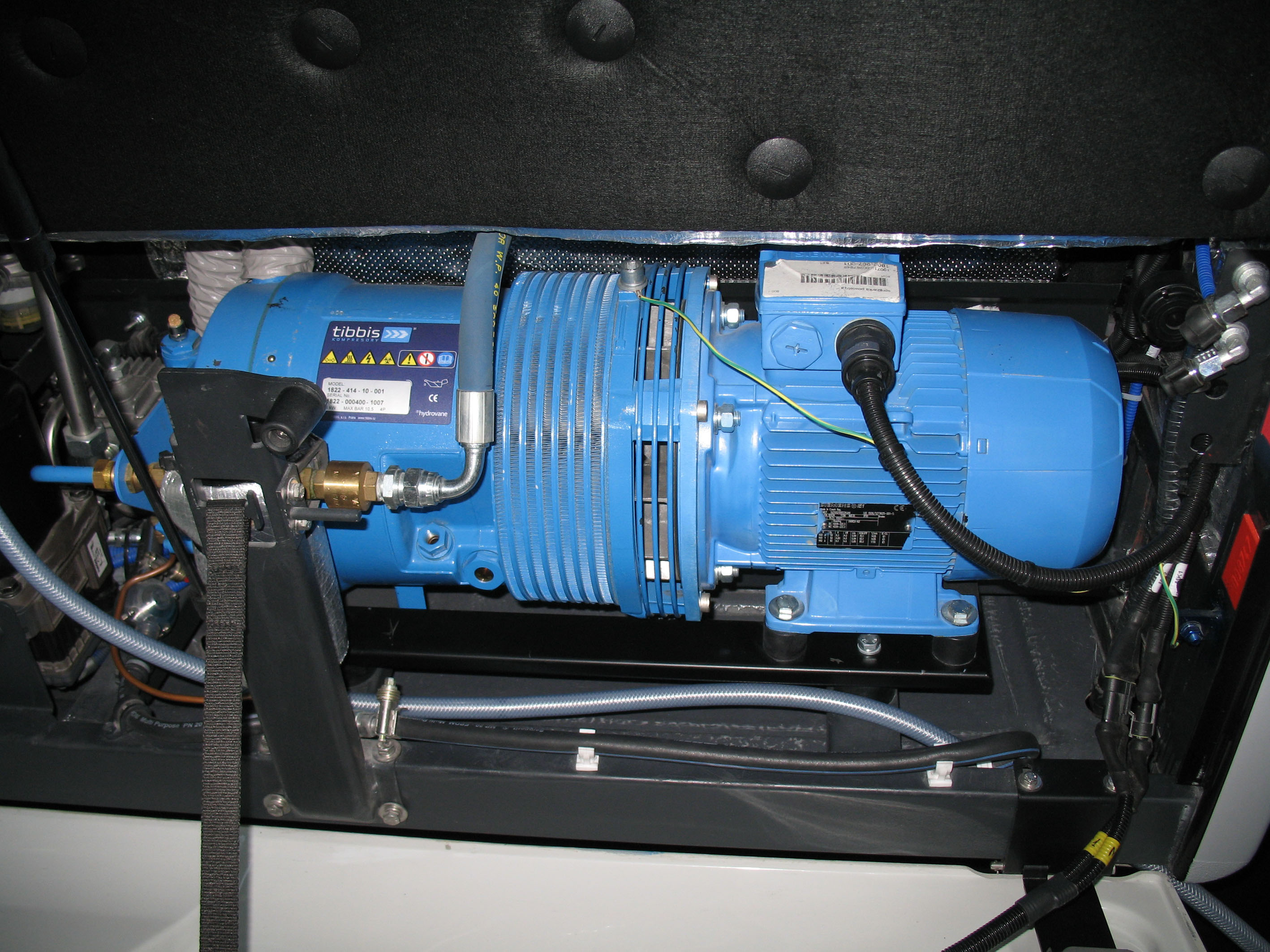 Solaris Urbino 18 Hybrid Vossloh Kiepe city bus engine in Kielce, Poland. Built 2010. Transexpo 2010.